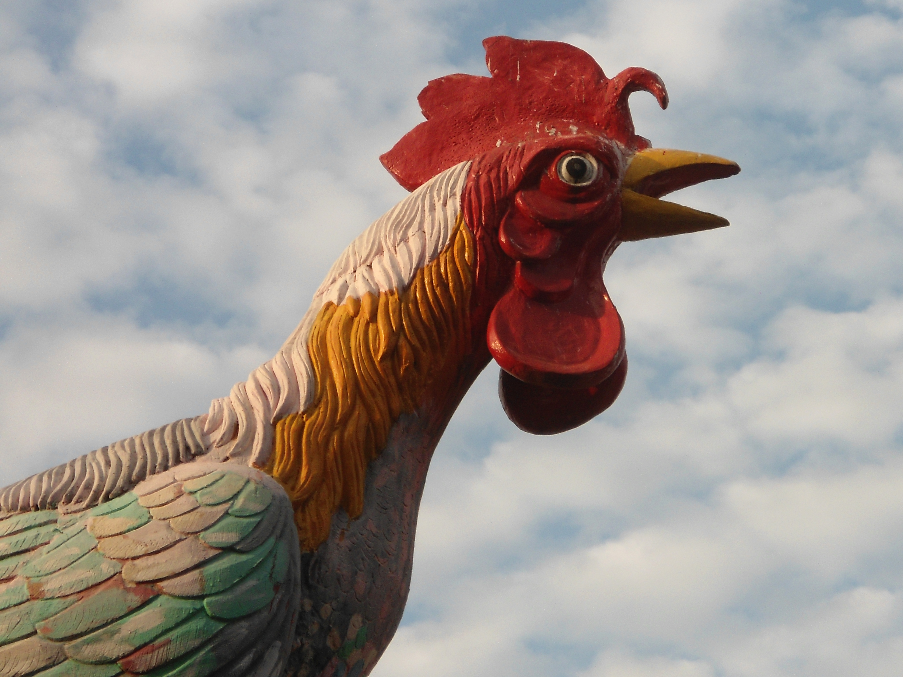 Replica Statue of a Cock at Shilparamam Jaatara at Madhurawada, Visakhapatnam